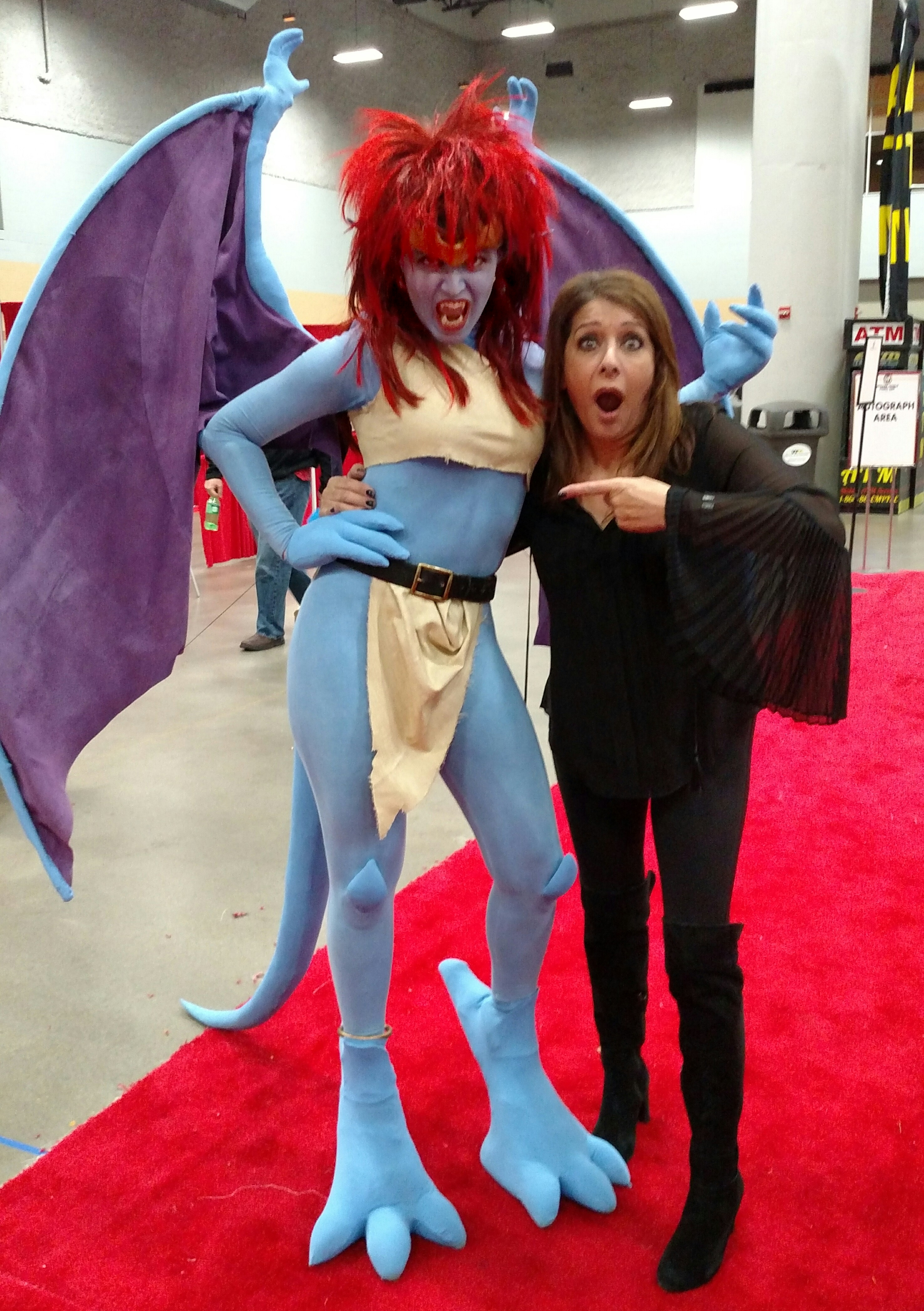 Photo taken on the con floor at Wizard World Des Moines 2017